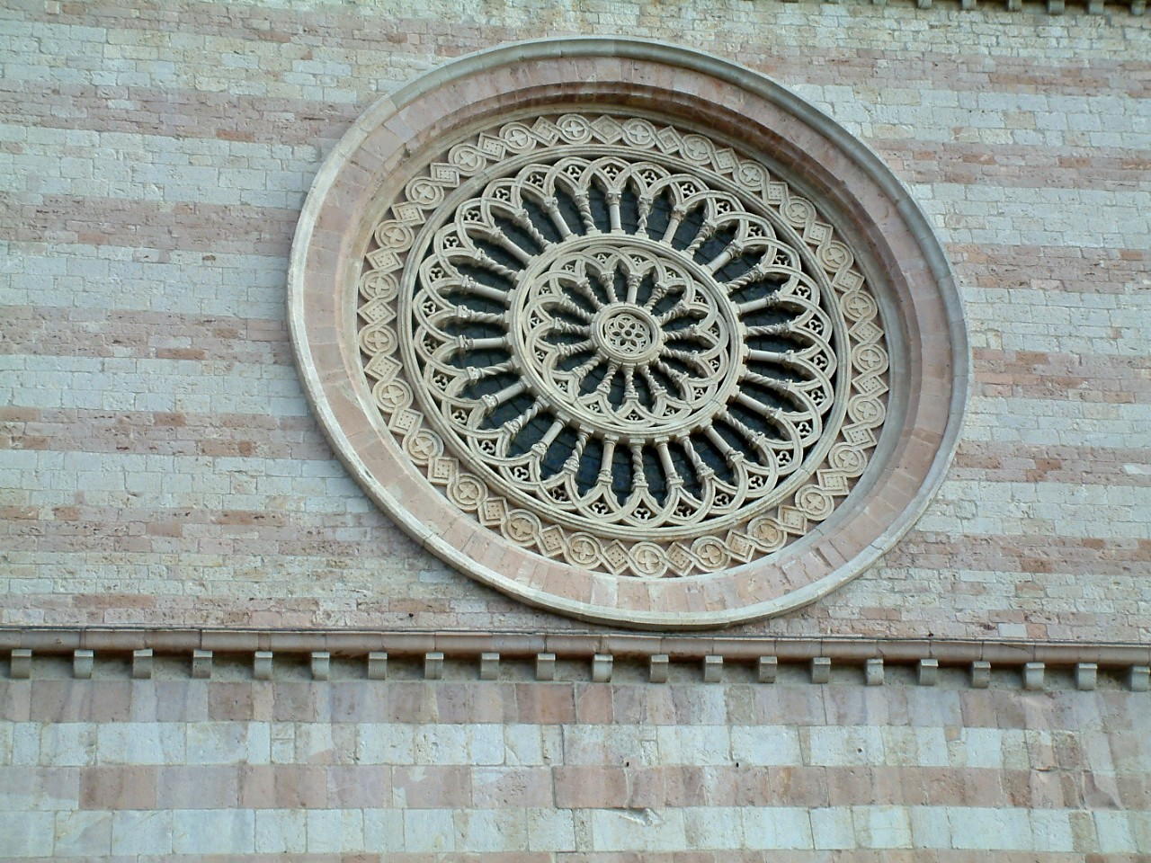 photo by Radomil 27.09.2004